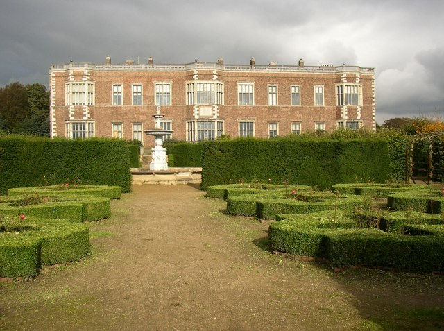 Shaped box hedges, Temple Newsam Park, Colton